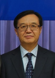 Acting Assistant Attorney General for the Antitrust Division Joseph Wayland and FTC Chairman Jon Leibowitz with Chinese Ministry of Commerce (MOFCOM) Vice Minister Gao Hucheng (高虎城) and State Administration for Industry and Commerce (SAIC) Vice Minister Teng Jiacai, photographed on September 25, 2012.